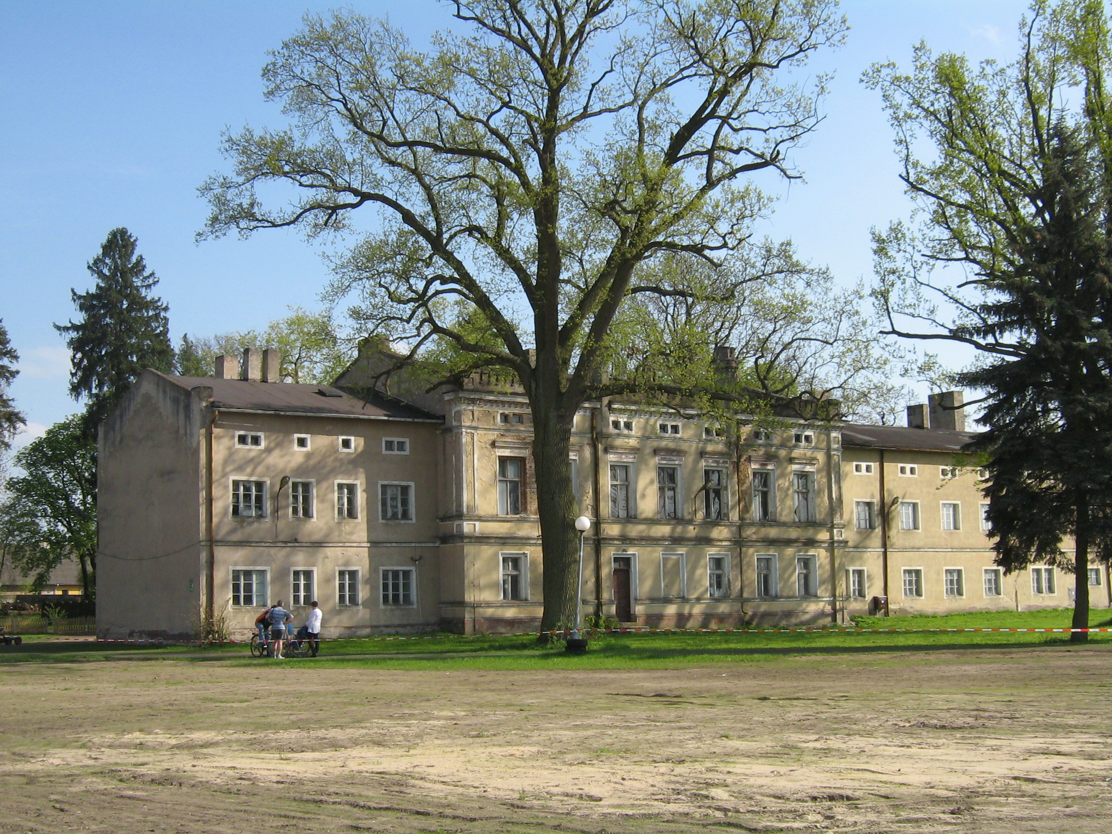 Wioska Palace (Poland)